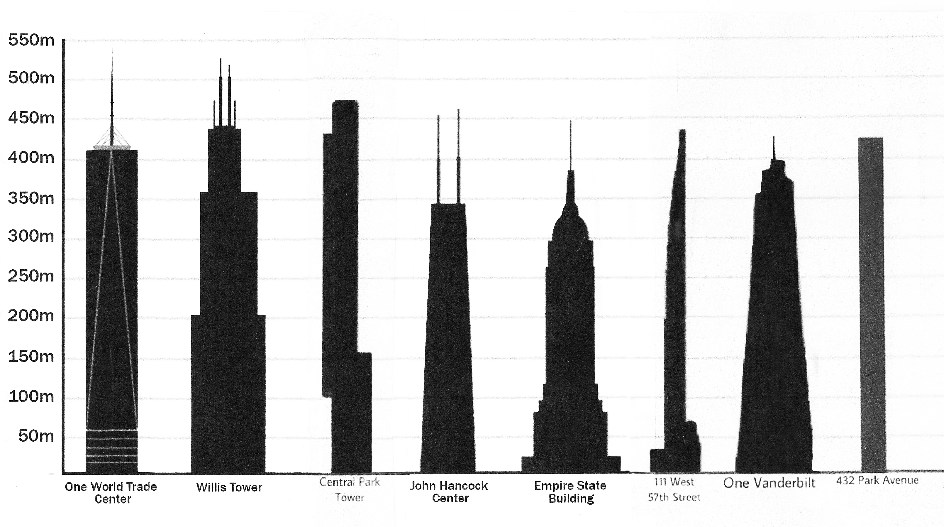 Tallest buildings in the USA by pinnacle height, including all antennae, poles, etc. whether architectural or not.